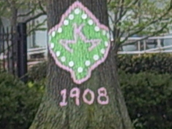 Alpha Kappa Alpha tree in Washington, D.C.